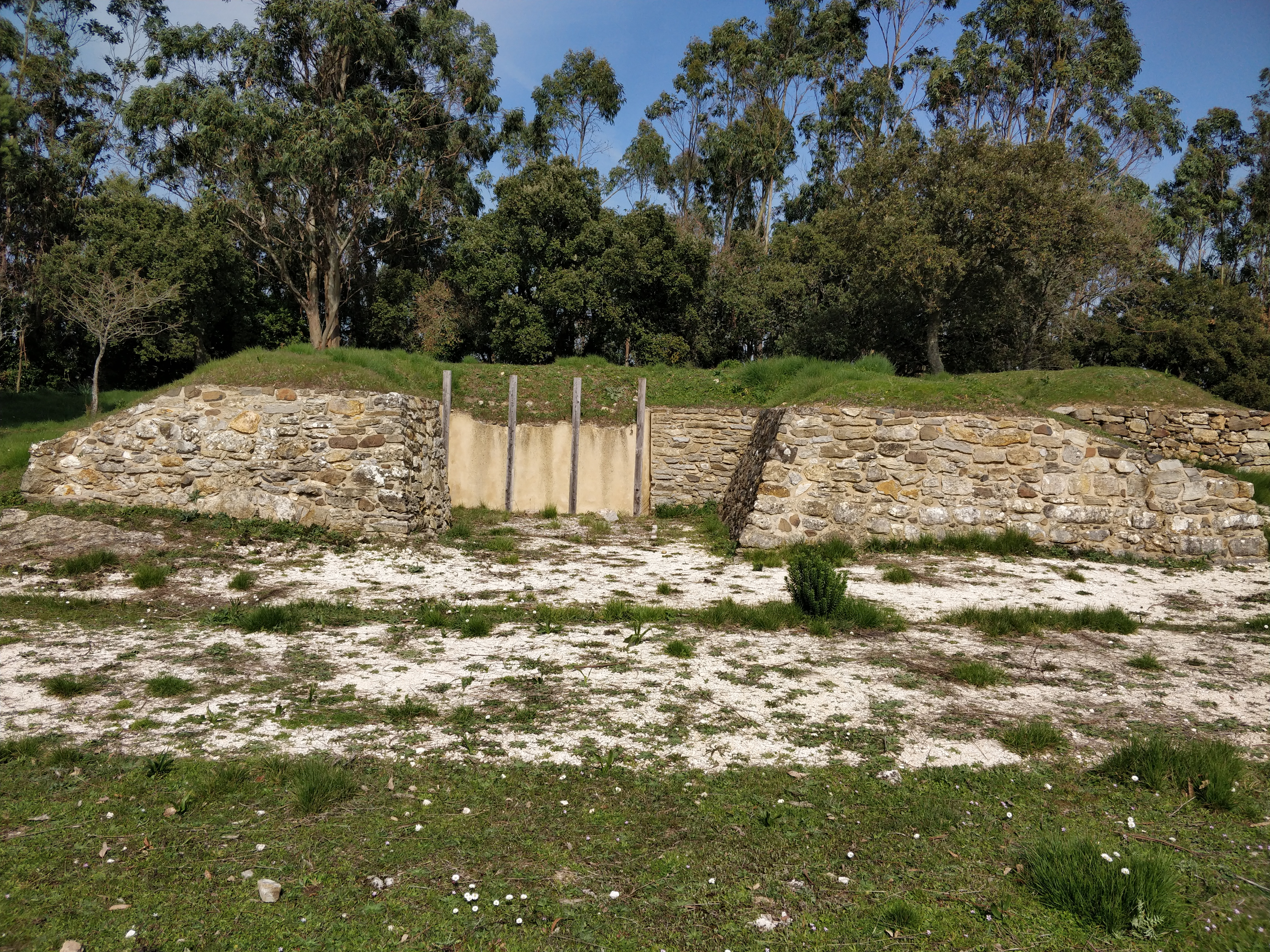 Fort or Redoubt of Mosqueiro, near Bucelas, Loures, Lisbon District, Portugal. The fort was part of the second line of the Lines of Torres Vedras